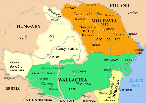 Romania's territory, map showing the period 1330-1395